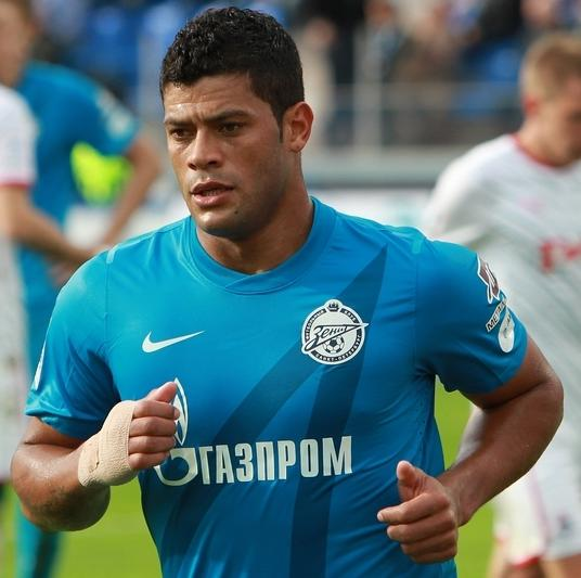 Hulk with FC Zenit St. Petersburg.